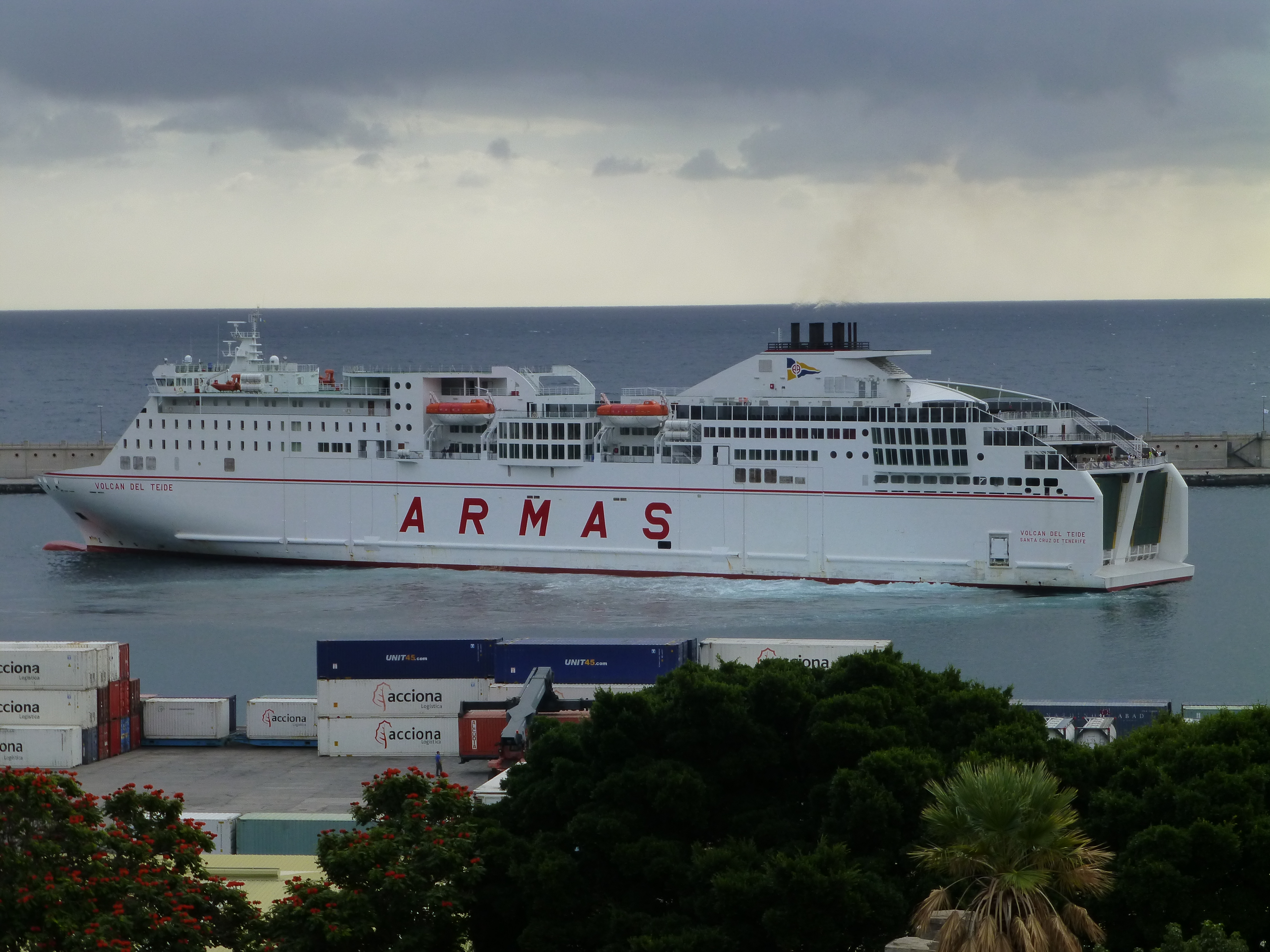 VOLCAN DEL TEIDE. Ro-ro / passenger ship. Year built: 2011. IMO: 9506289, MMSI: 225416000.